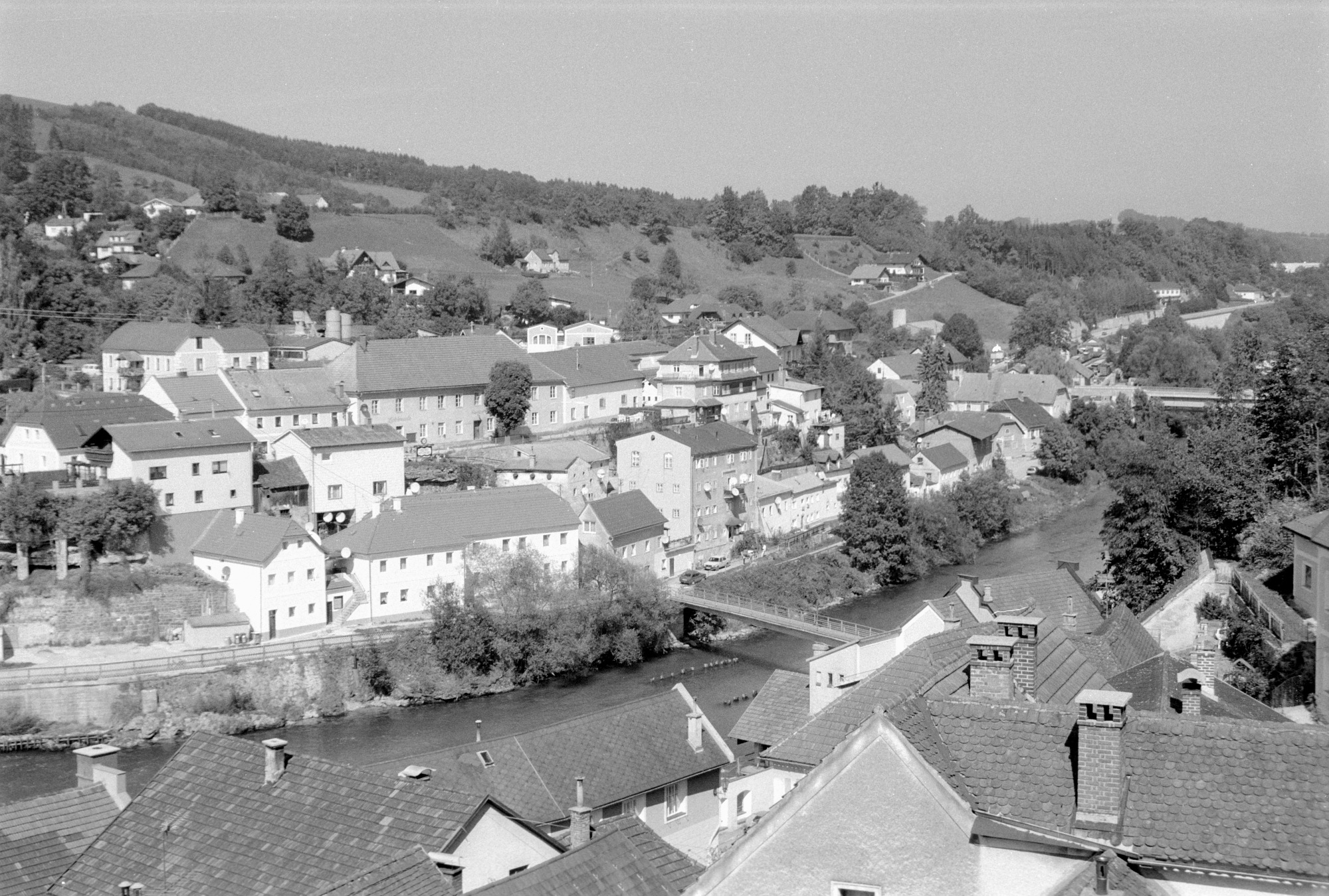 Grünburg in Upper Austria, seen from neighbor village Steinbach an der Steyr